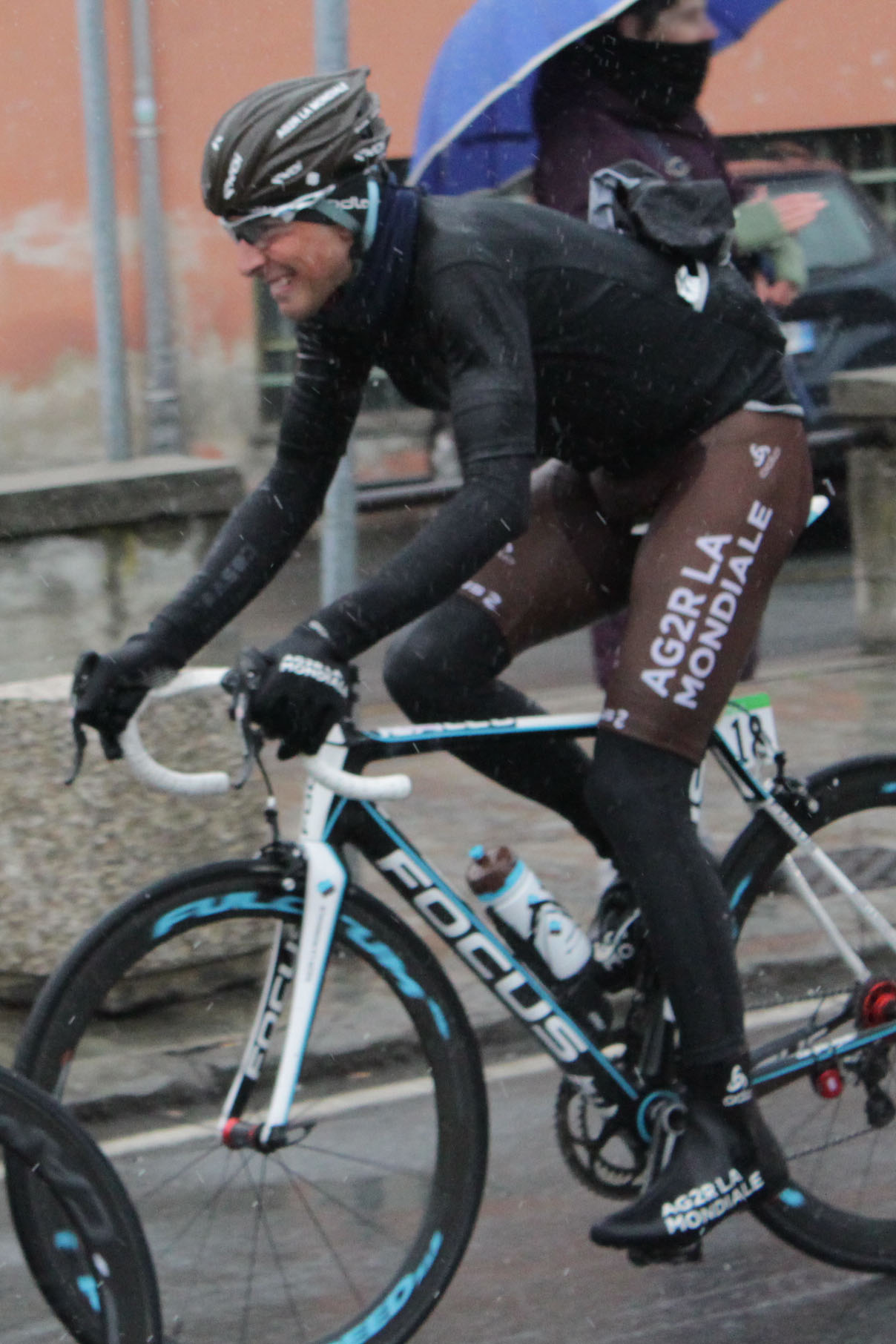 Matteo Montaguti, Milan-Sanremo 2013, Savona